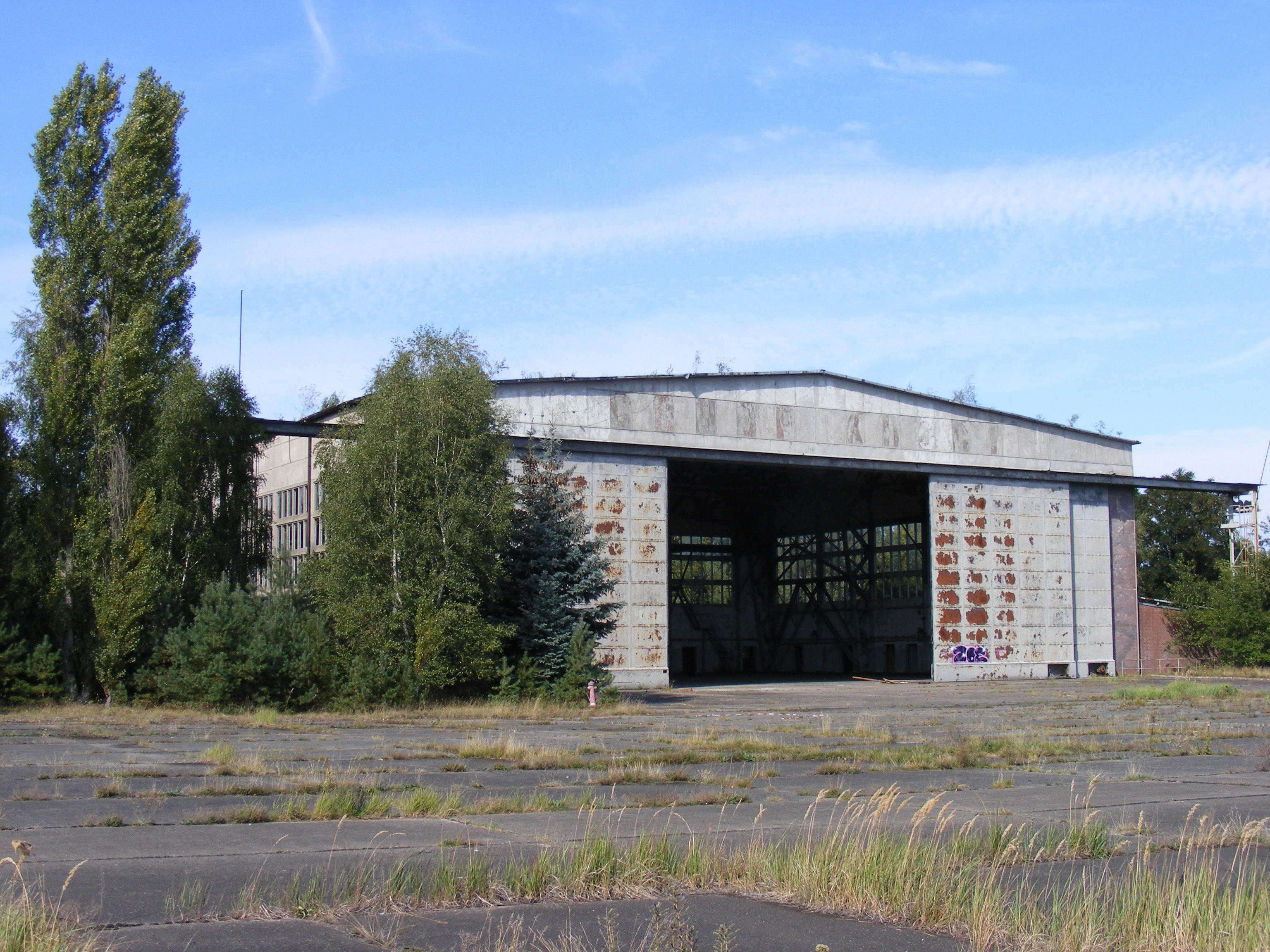 Hangar on the former military air base Sperenberg (Western Group of Troops – WGT; 16th air army, 226th Separate mixed aviation wing), Germany (FR), federal state Brandenburg (administration seat — Brandenburg).